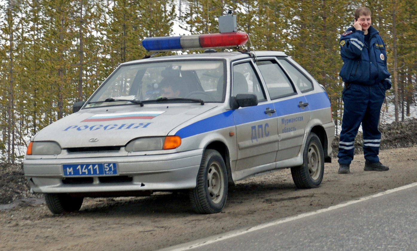 Police in M18-road in Russia.